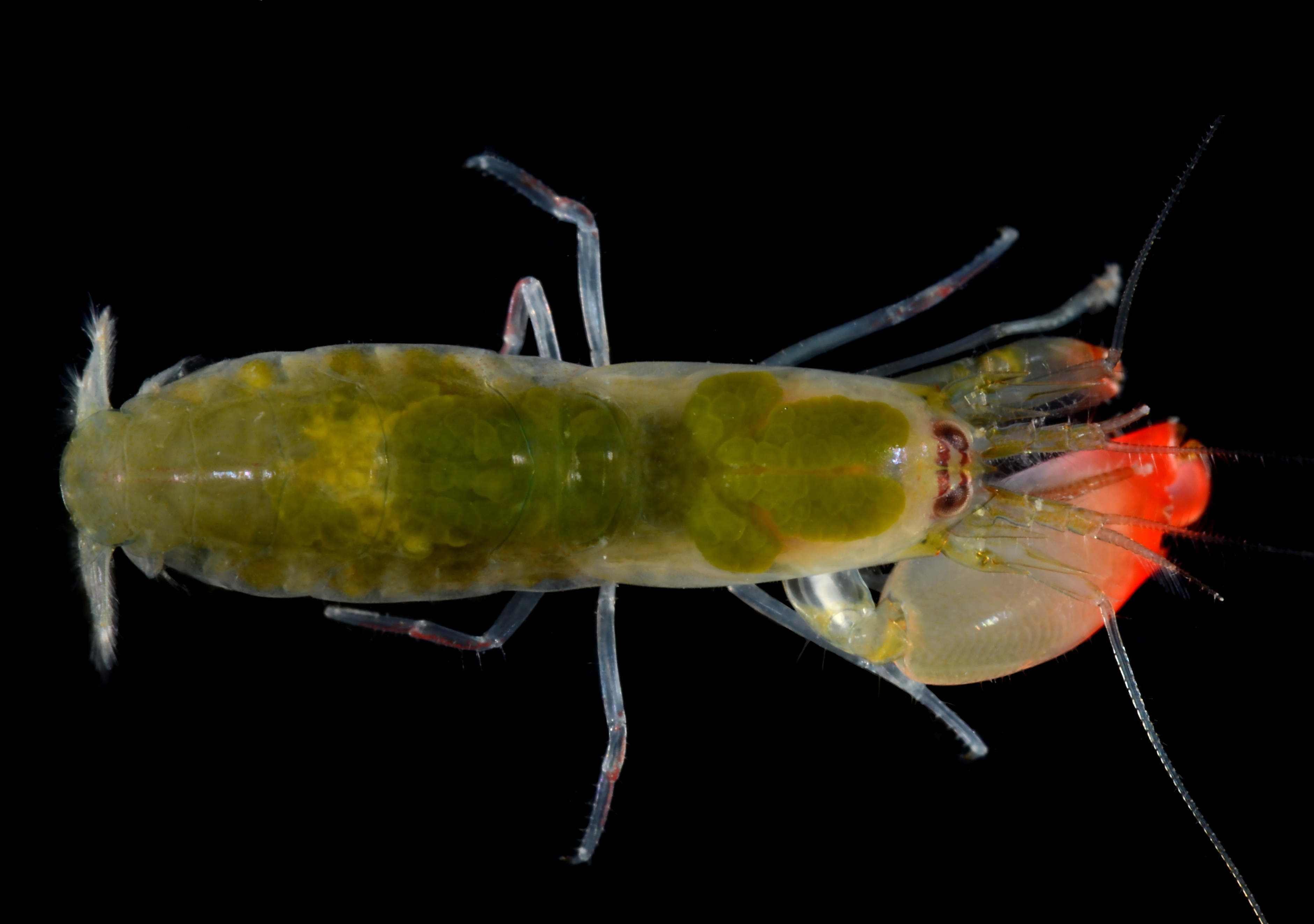 Synalpheus pinkfloydi female, from the Las Perlas Archipelago, Panama